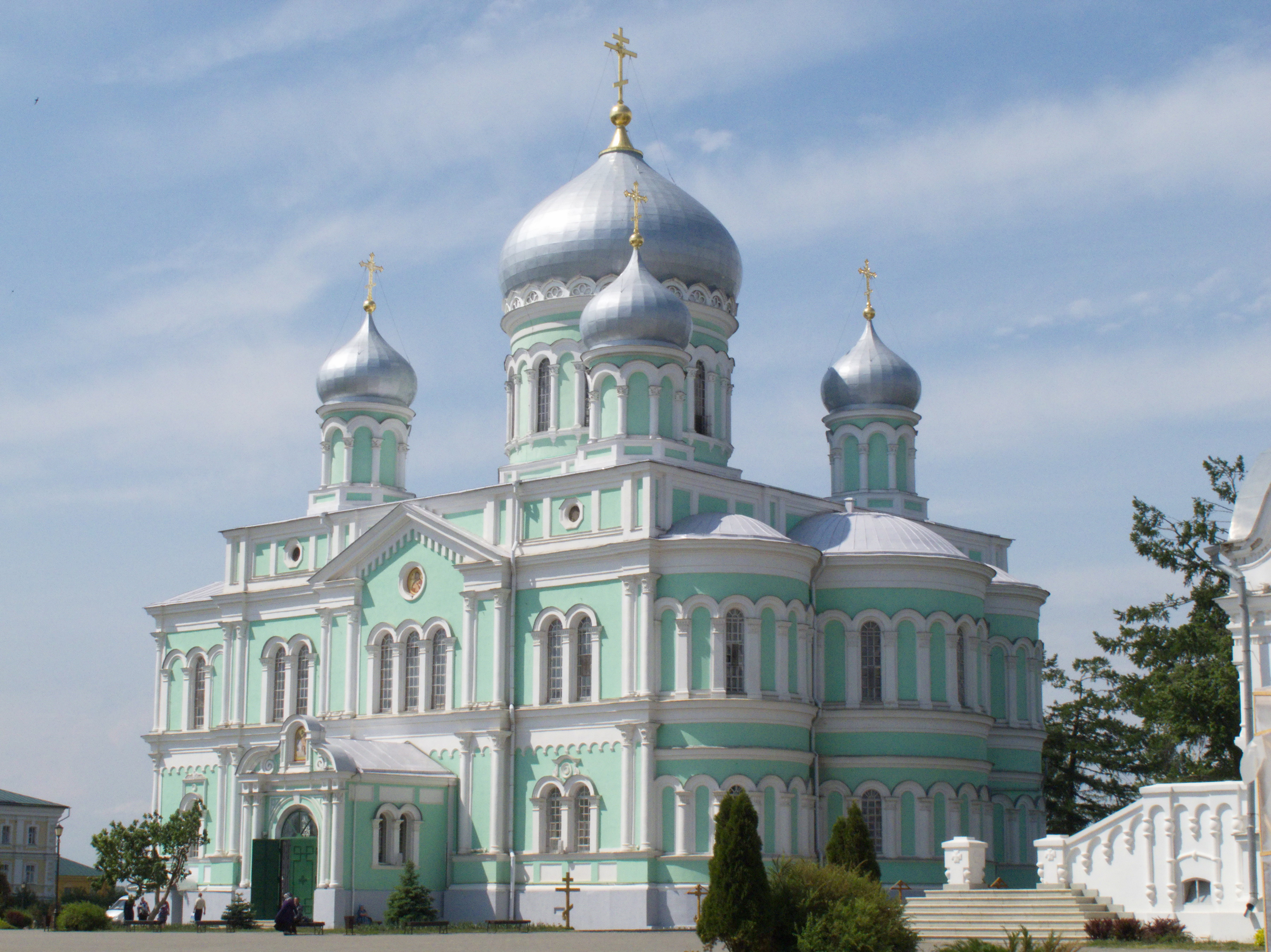 Troitsky sobor (The Transfiguration Cathedral), Serafimo-Diveevsky Monastery, Diveyevo, Russia, May 2012